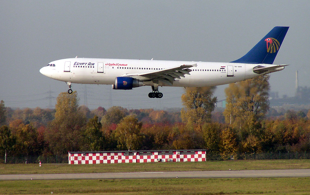 An Egypt Air Airbus A300-600R landing at Düsseldorf Airport, 2004-11-04.